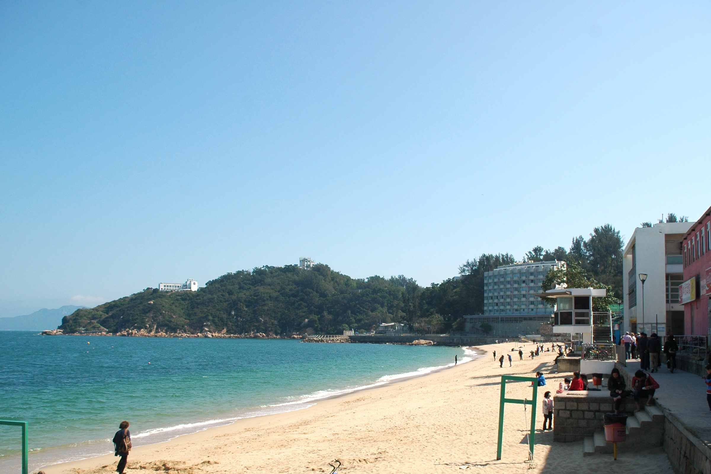 Tung Wan Beach and Warwick Hotel, Cheung Chau, Hong Kong.